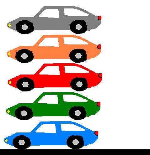 Vehicles stacked on top of one another in a vertical queue.